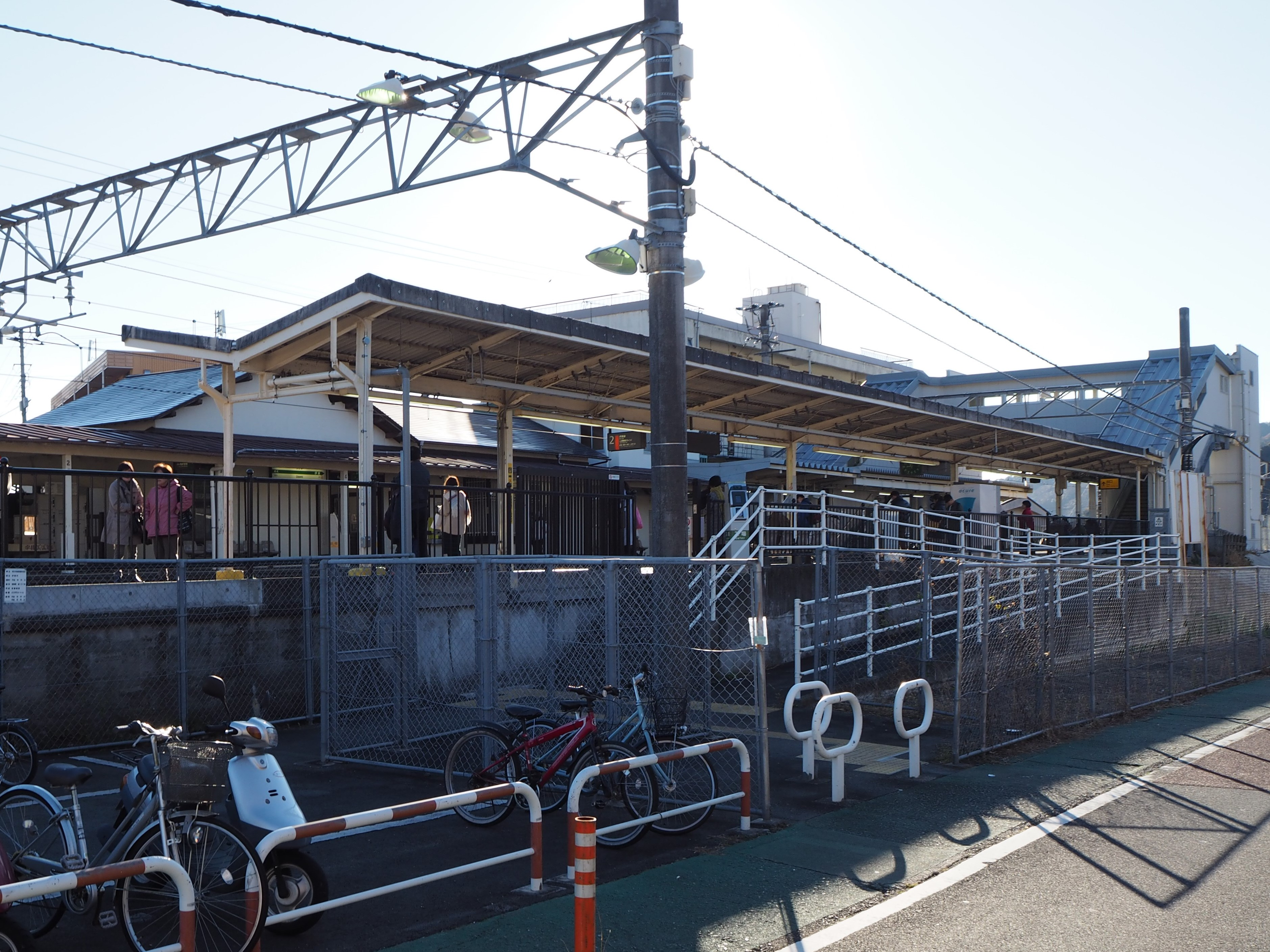 West Entrance of Usami Station Olympus E-M10